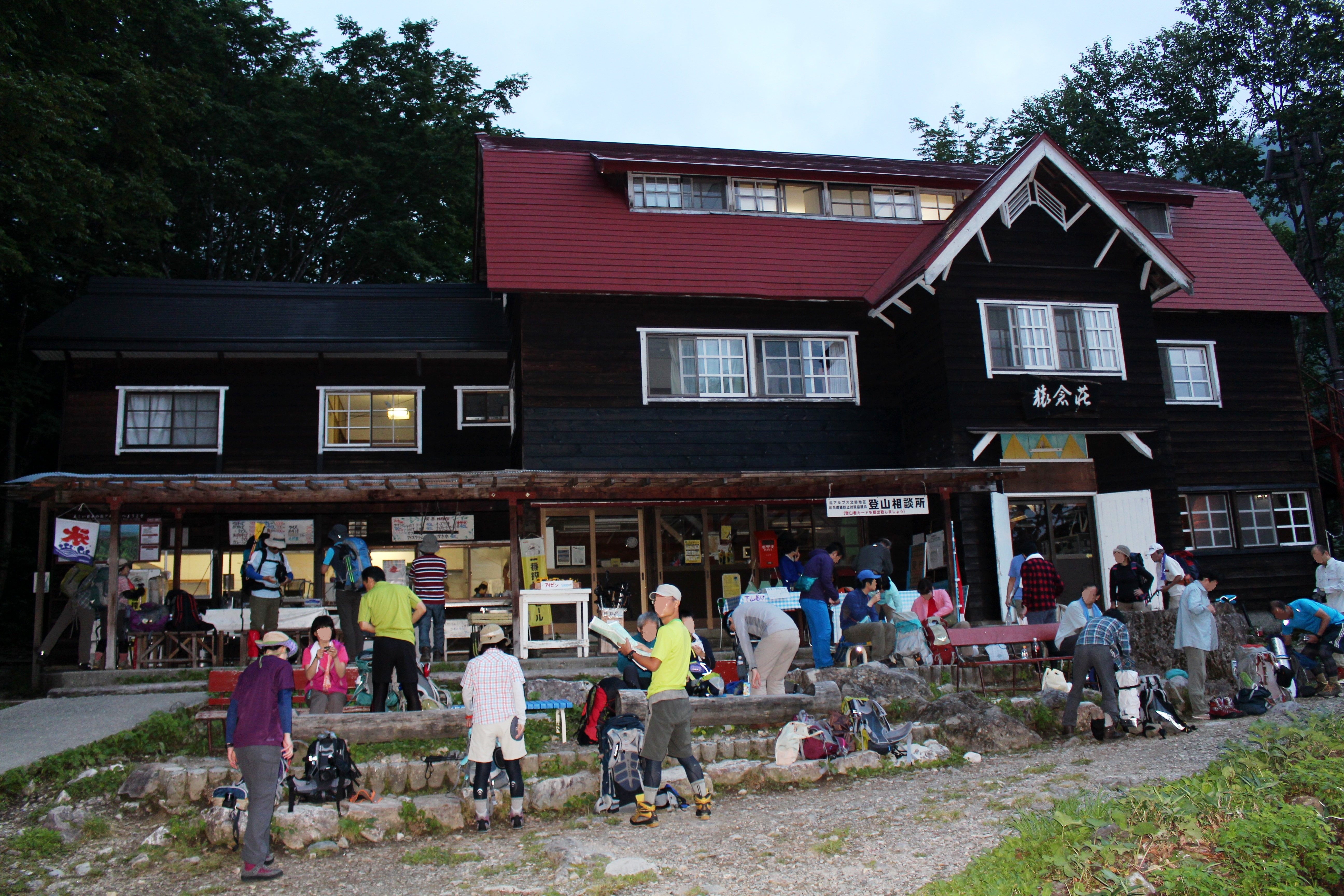 Sarukuroso, a mountain hut in Mount Shirouma, Hakuba, Nagano prefecture, Japan.